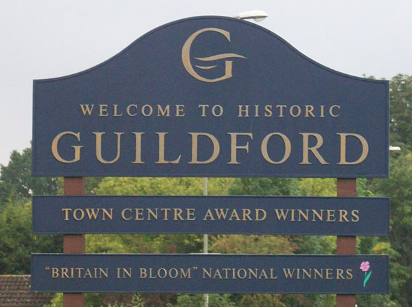 A photograph of a welcome sign to the city of Guildford in Surrey, England.